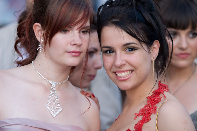 Girls at their high school promotion